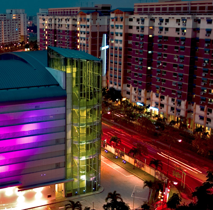 A rooftop view from HDB Apartment Block 738, with a direct view of Lighthouse Evangelism Woodlands and Woodlands Mart (Block 768).